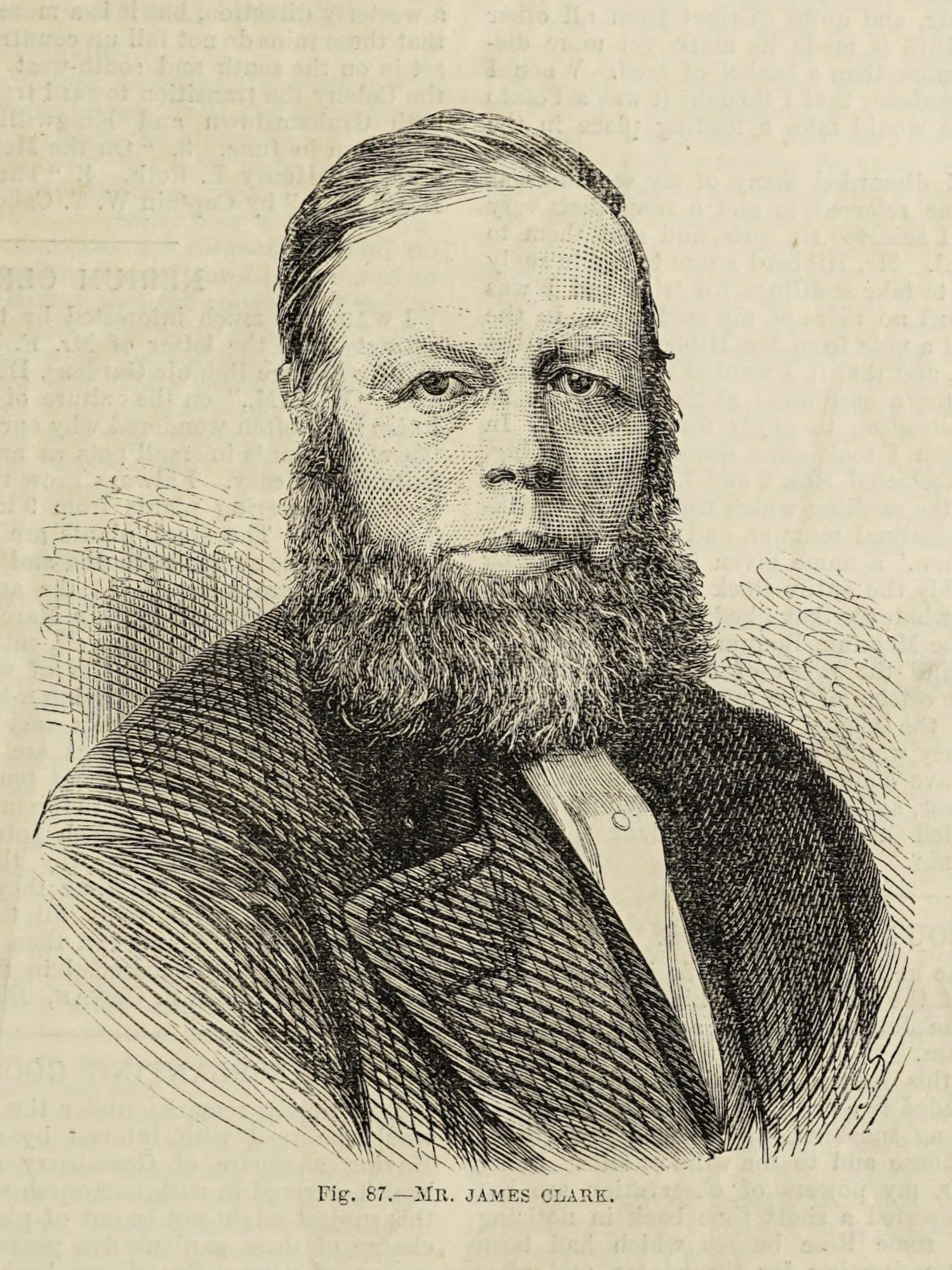 James Clark (1825-1890), British horticulturist noted for breeding the Magnum Bonum disease-resisting potato.